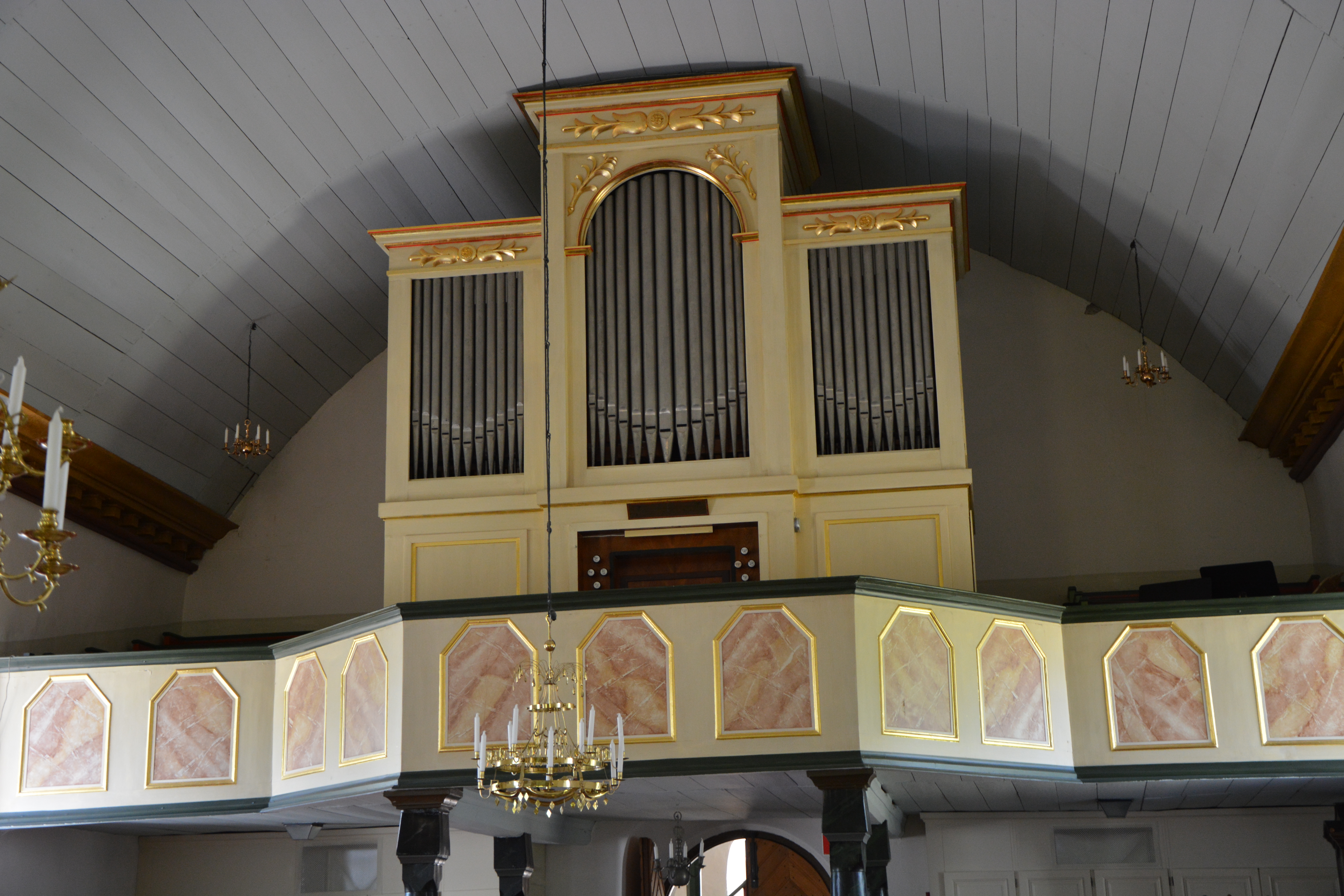 Nye Church. The organ